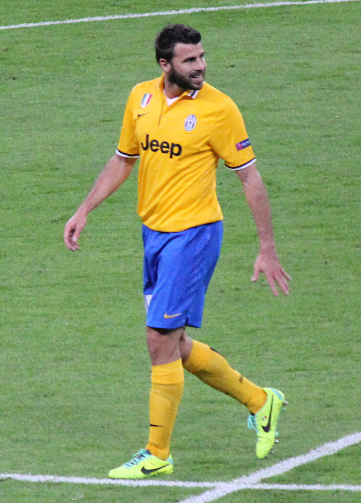 Madrid, 24 October 2013, Santiago Bernabéu Stadium. Real Madrid CF vs Juventus FC (2-1), 2013-14 UEFA Champions League group stage. Bianconeri's defender Andrea Barzagli.